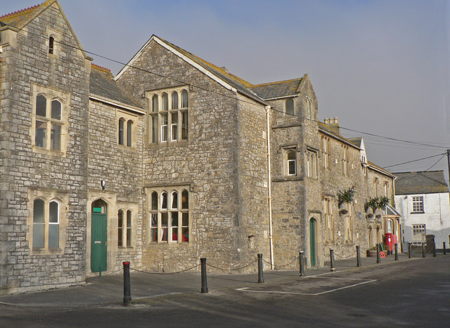 'The Old School', Llantwit Major 'The Old School' now functions as a support for local council activities and provides facilities such as diverse as Citizen's Advice Bureau, nursery school, slimmer's club as well as housing the Council chamber.